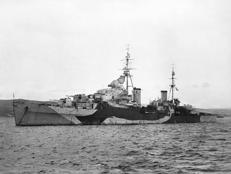 HMS SPARTAN, 10 August 1943. At anchor on completion.